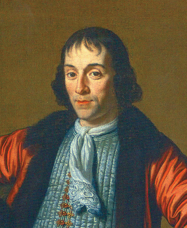 Portrait of Alexander Danilovich Menshikov (fragment )in 1698 painted in Holland during Grand Embassy of Peter the Great. 67x45,5 cm, collection Y. Weisman, Munich